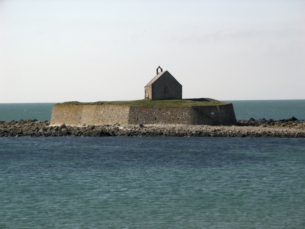 Cribinau - the church in the sea Anglesey. Taken 19th March 2006